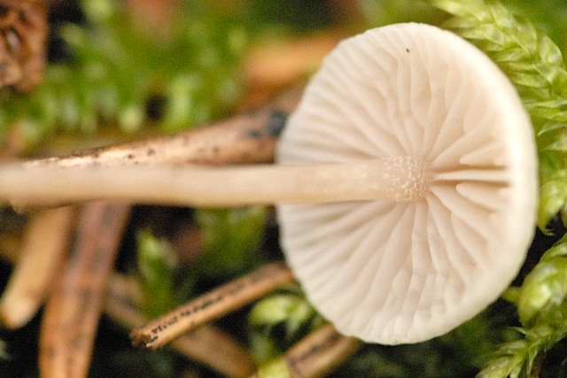 Collybia cookei from Commanster, Belgian High Ardennes .